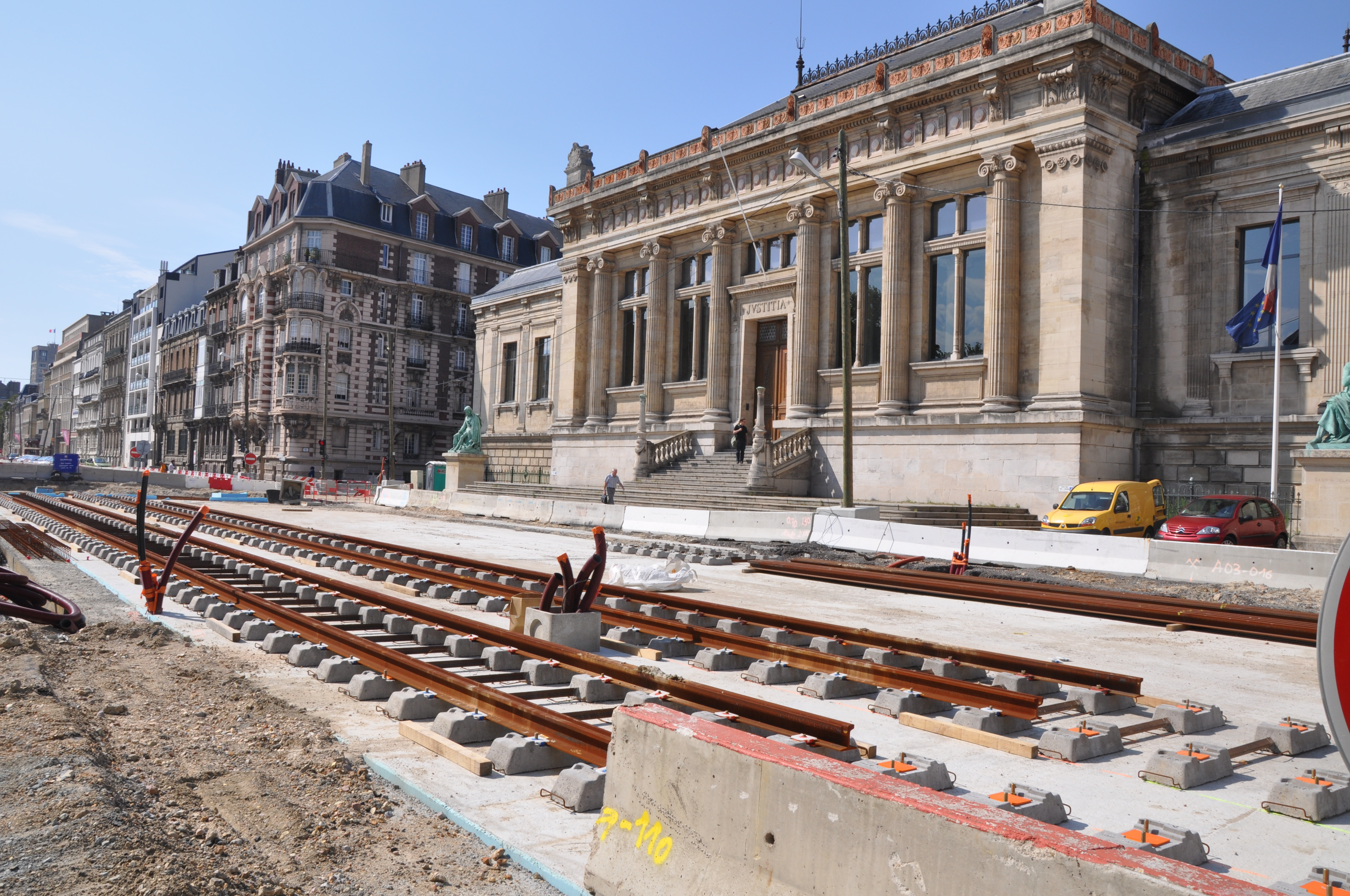 Le Havre (Normandie, France) : construction of new tramway